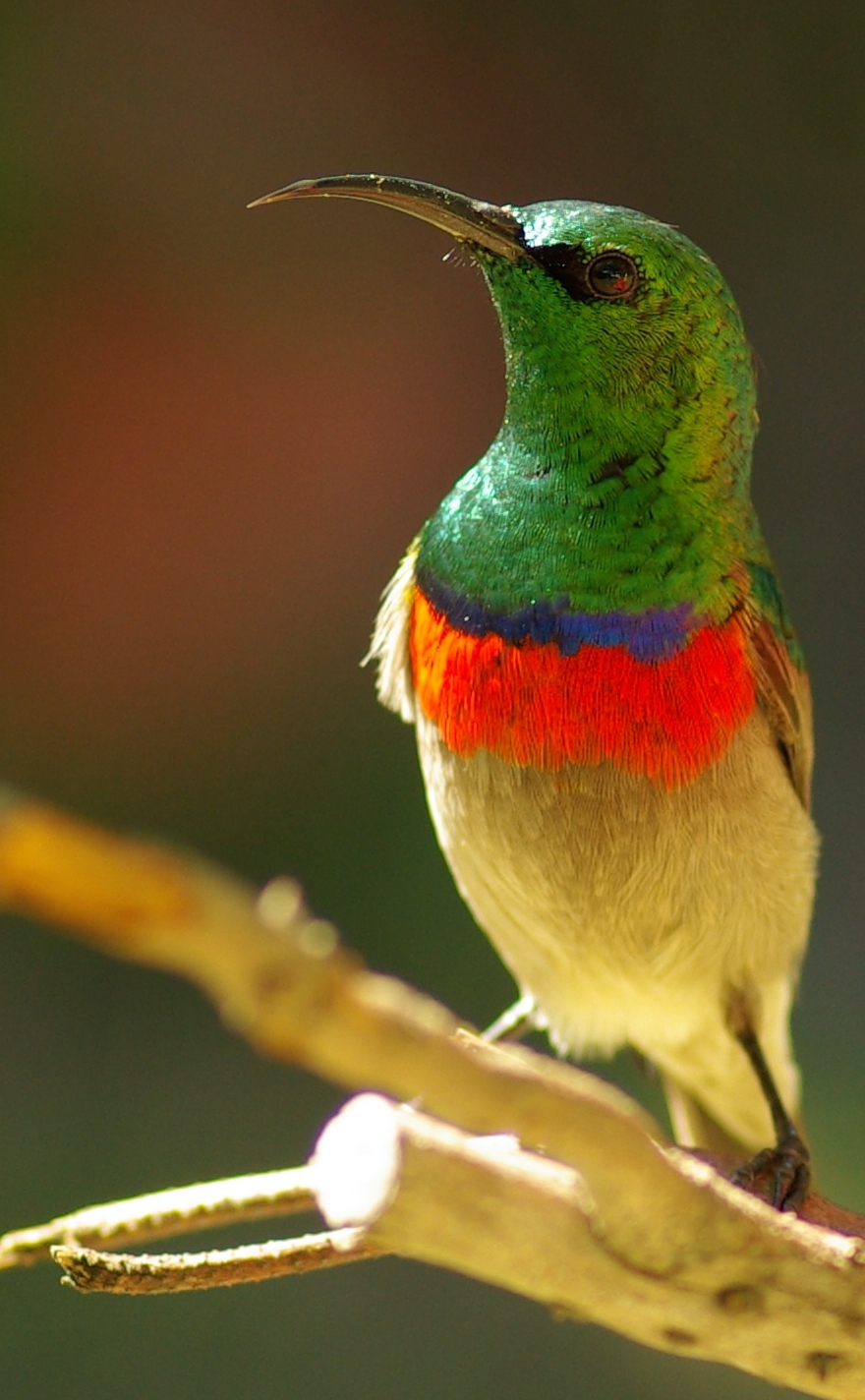 Taken in Greyton, West Cape, South Africa